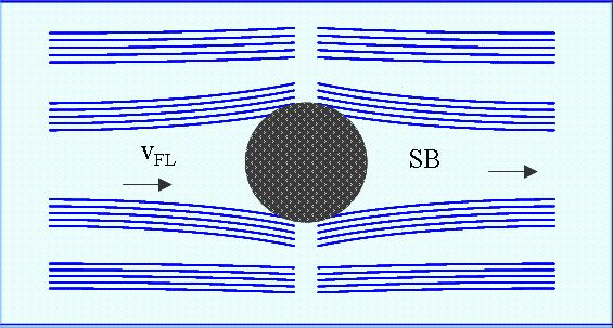 Molecular power. Interaction of fluid flow with solid body. Describes the hydrodynamics of fluids.